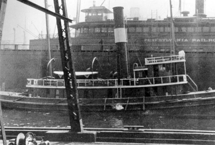 Jack T. Scully (U.S. Harbor Tug, 1899) Photographed circa 1917, probably in the New York City area. This tug was taken over by the Navy on 25 September 1917, shortly after being renamed Mariner. Placed in commission on 19 December 1917 as USS Mariner (SP-1136), she was lost in a storm off Long Island, New York, on 26 February 1918. A Pennsylvania Railroad ferryboat is in the background. The original print is in National Archives' Record Group 19-LCM. U.S. Naval Historical Center Photograph.